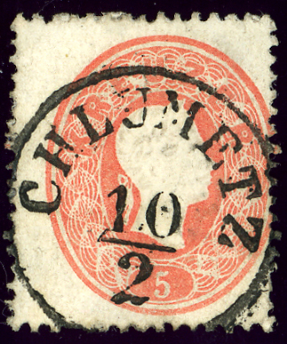 Austrian KK stamp, 5 kreuzer issue 1861, cancelled at CHLUMETZ (Chlumec nad Cidlinou), Bohemia